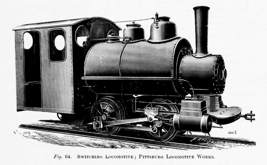 Switcher locomotive build by Pittsburgh Locomotive & Car Works.